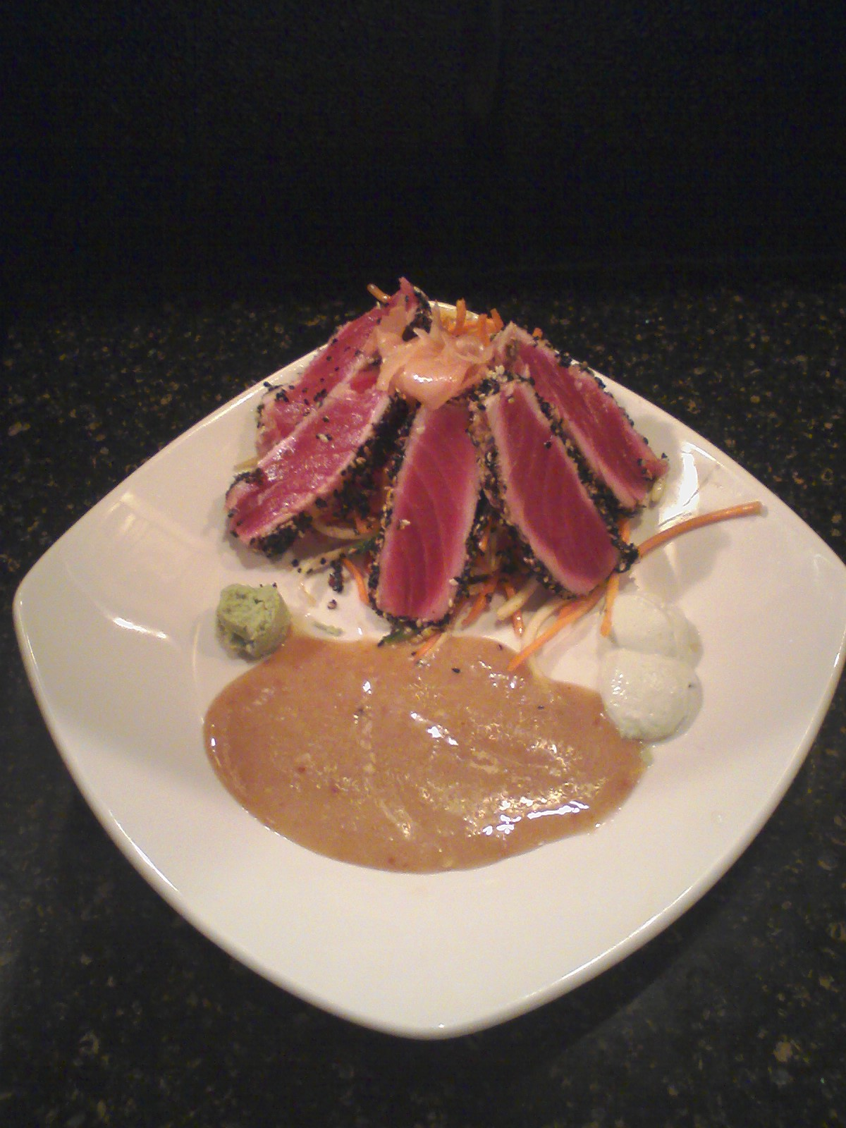 Ahi tuna, pan seared rare and crusted in seasame seeds. Served over a vegetable julienne, with wasabi, wasabi cream, an orange ginger sauce and topped with pickled ginger.